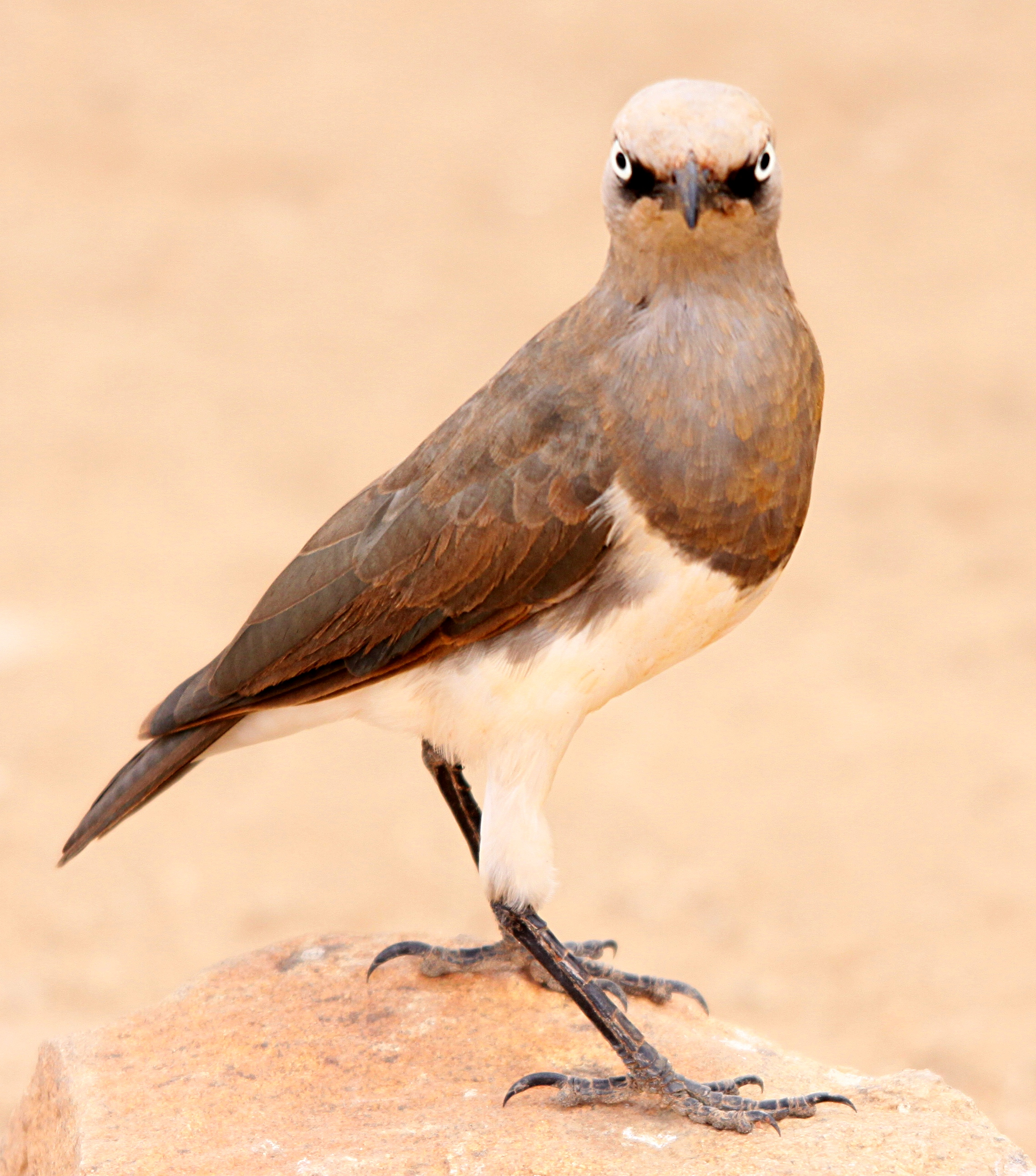 Fischer's Starling, Lamprotornis fischeri juvenil (formerly Spreo fischeri), photographed in Kenya